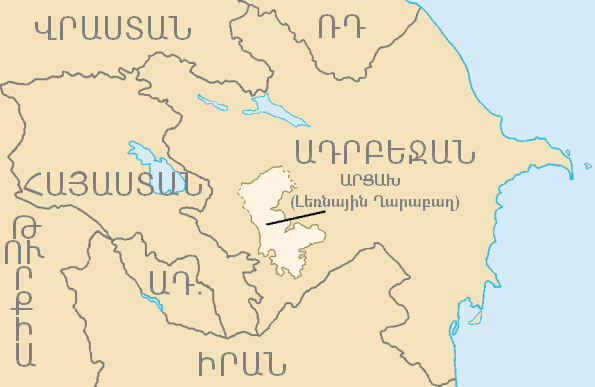 Location of Artsakh (Nagorno-Karabakh)